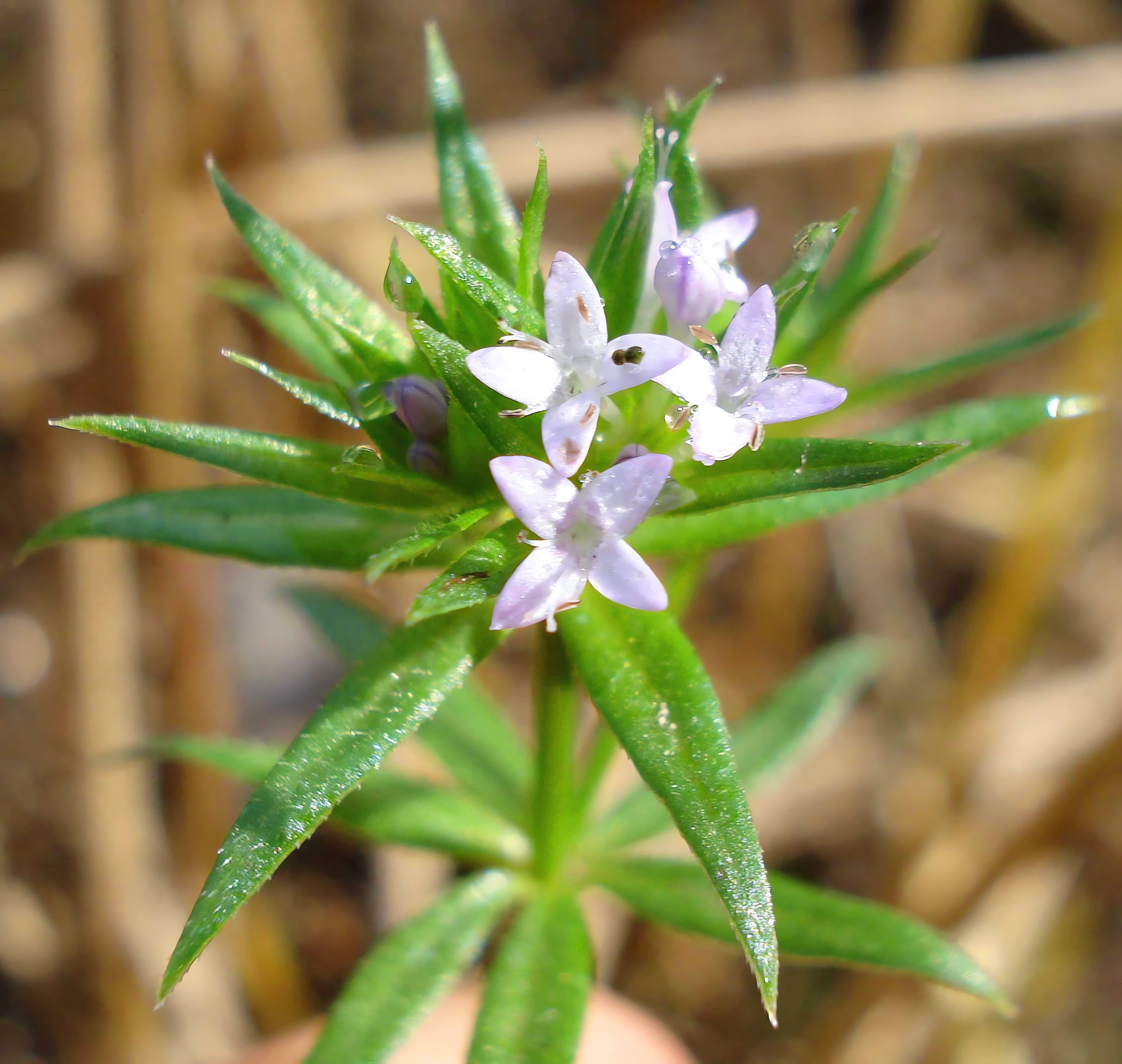 Sherardia arvensis